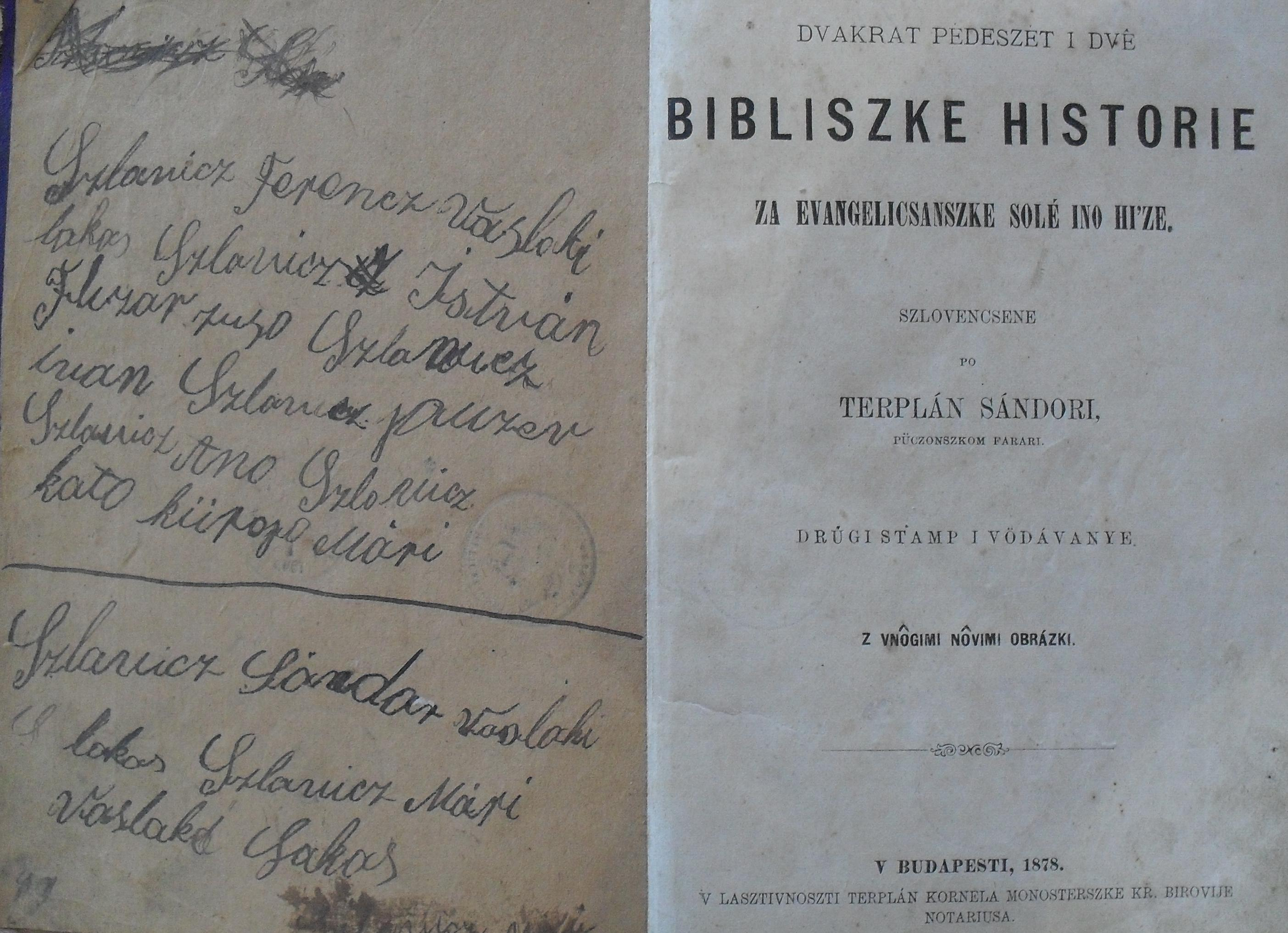 Dvakrat pedeszet i dve Bibliszke Historie (Twice 52 History from Bible), second issue of prekmurian (prekmurščina) evangelic Bible-translation in 1878, by Sándor Terplán